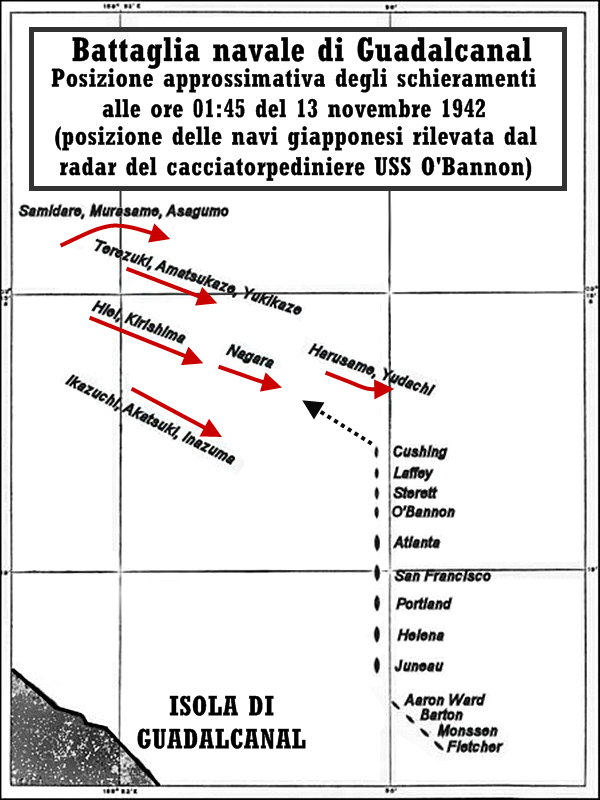 Map of the naval engagement of November 13, 1942, at 01:45 just before several U.S. warships began to turn left (indicated by dotted black arrow) in preparation to engage the Japanese ships and the U.S. column began to jumble. The Japanese warship groups are represented by red arrows. Background taken from [1] (which is a U.S. government public domain document). Derivative works of this file: NavalGuadalcanalNov13 mod.jpg